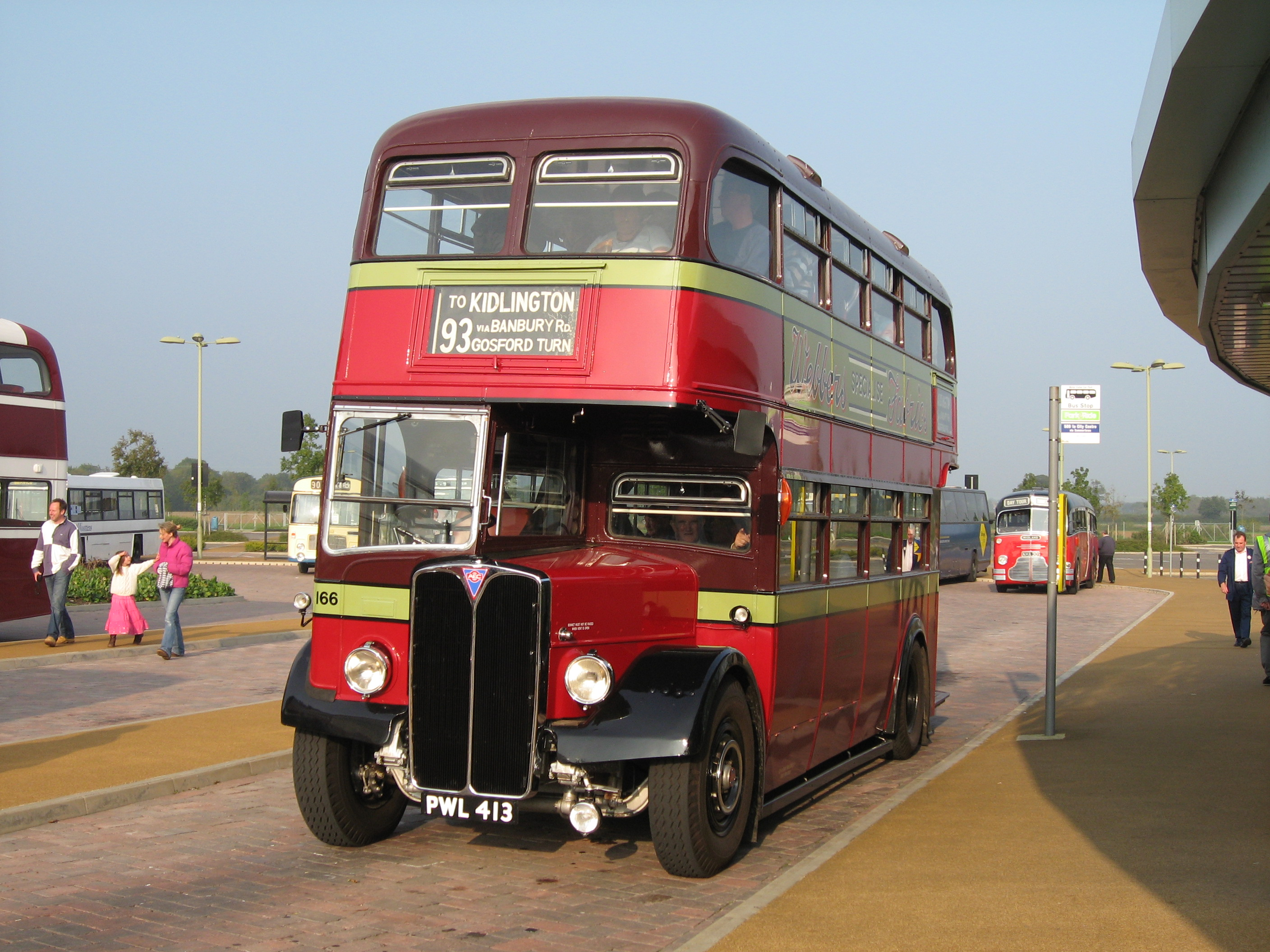 An AEC Regent III bus, registration mark PWL 413, at an historic bus event. This bus was operated by City of Oxford Motor Services, fleet number 166.